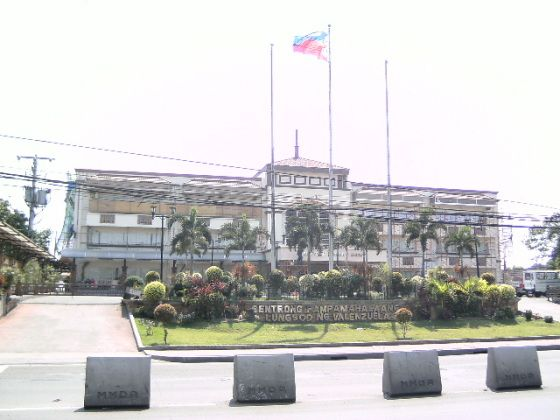 City hall of Valenzuela